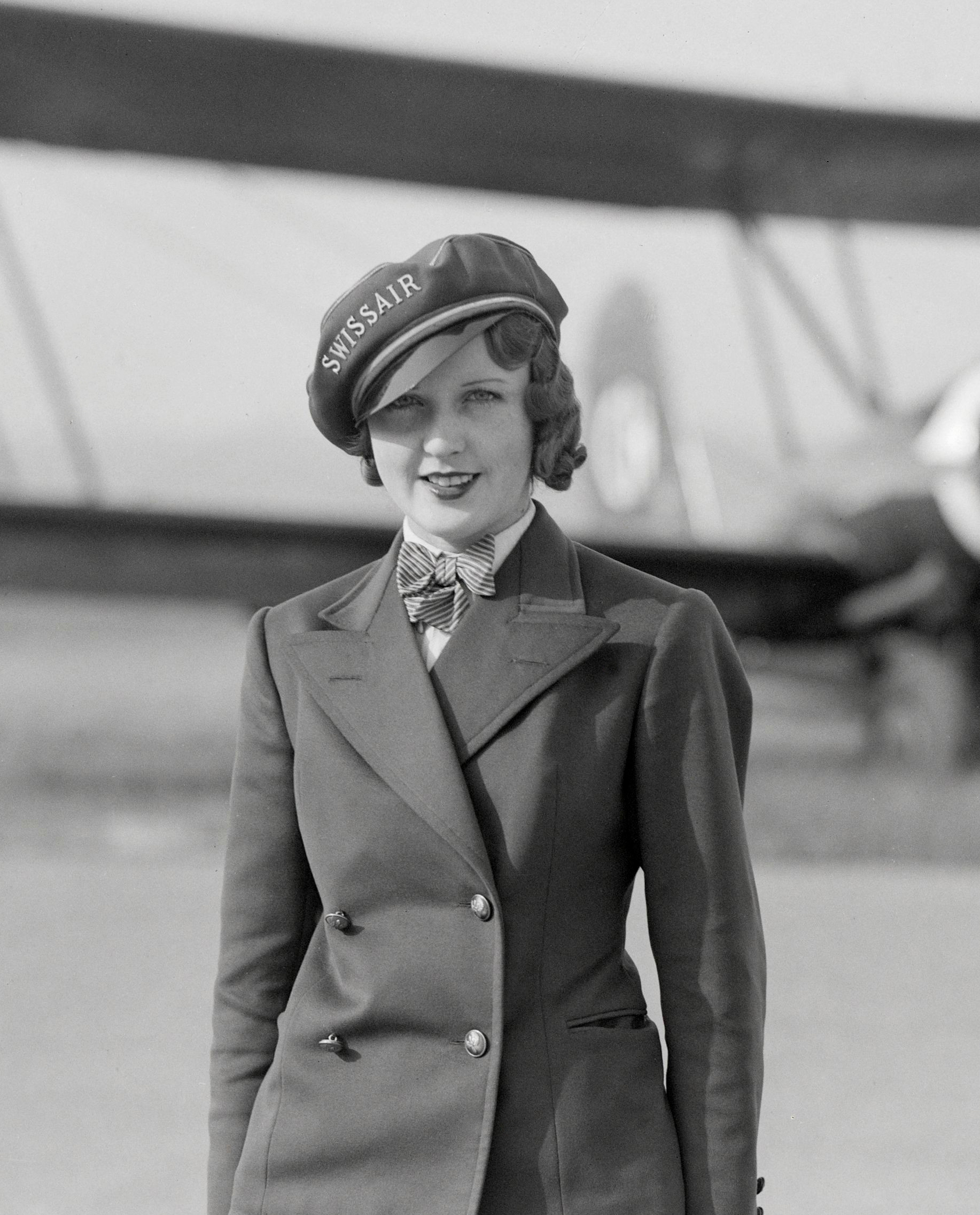 Nelly Diener, the first air stewardess in Europe.